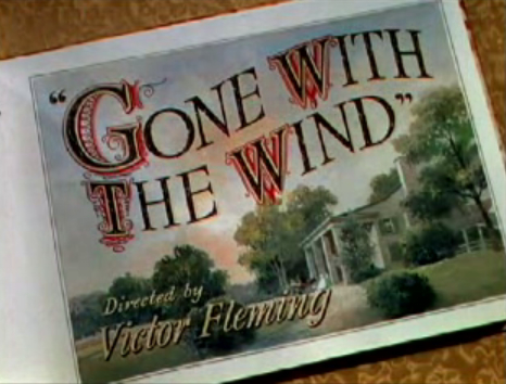 Screenshot of the title page from the trailer for the film Gone with the Wind